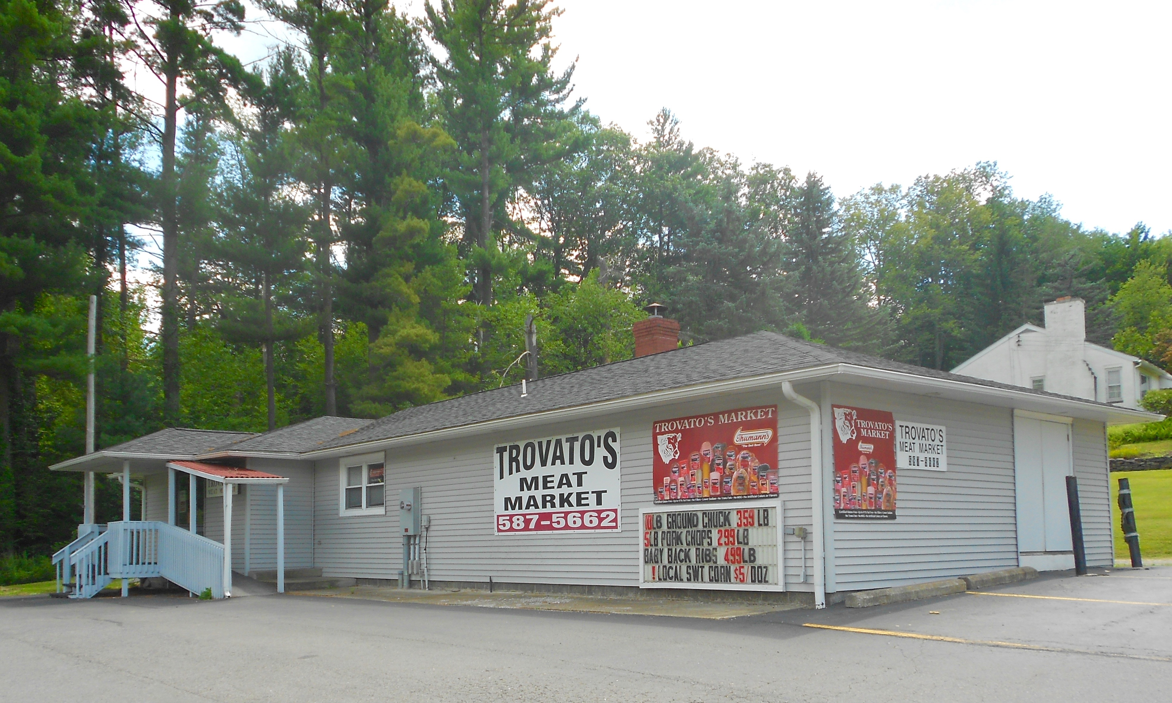 Butcher shop in southern Glenburn Township, Lackawanna County, Pennsylvania. On US 11 and Ruth Street